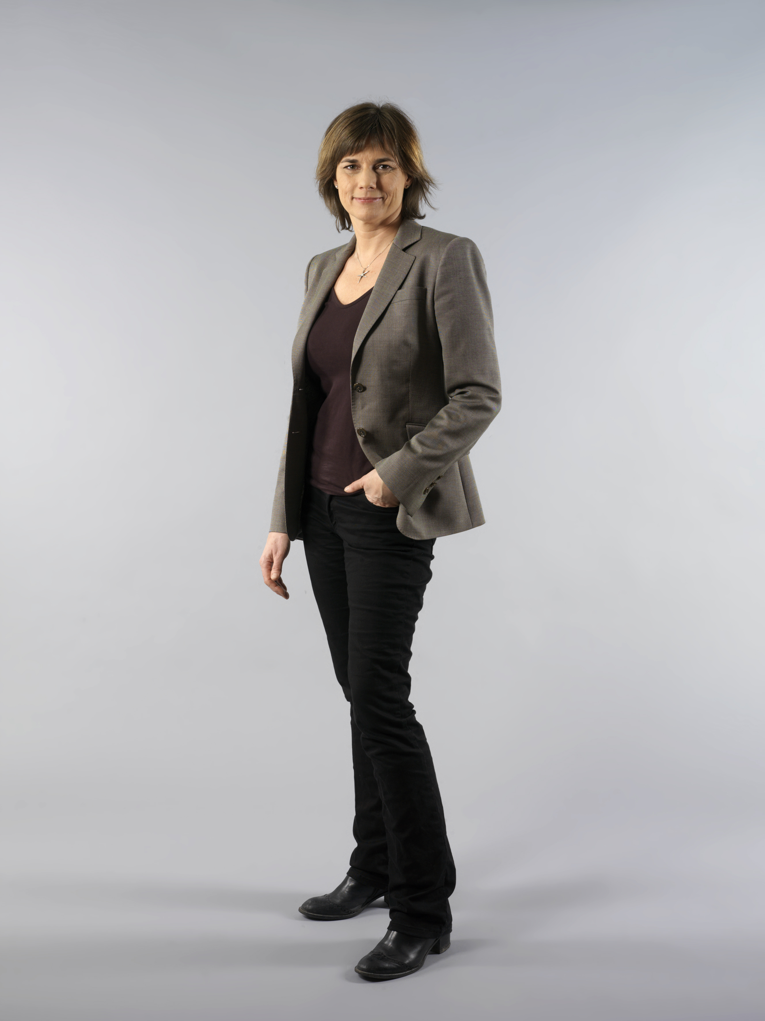 Swedish journalist and author, Isabella Lövin